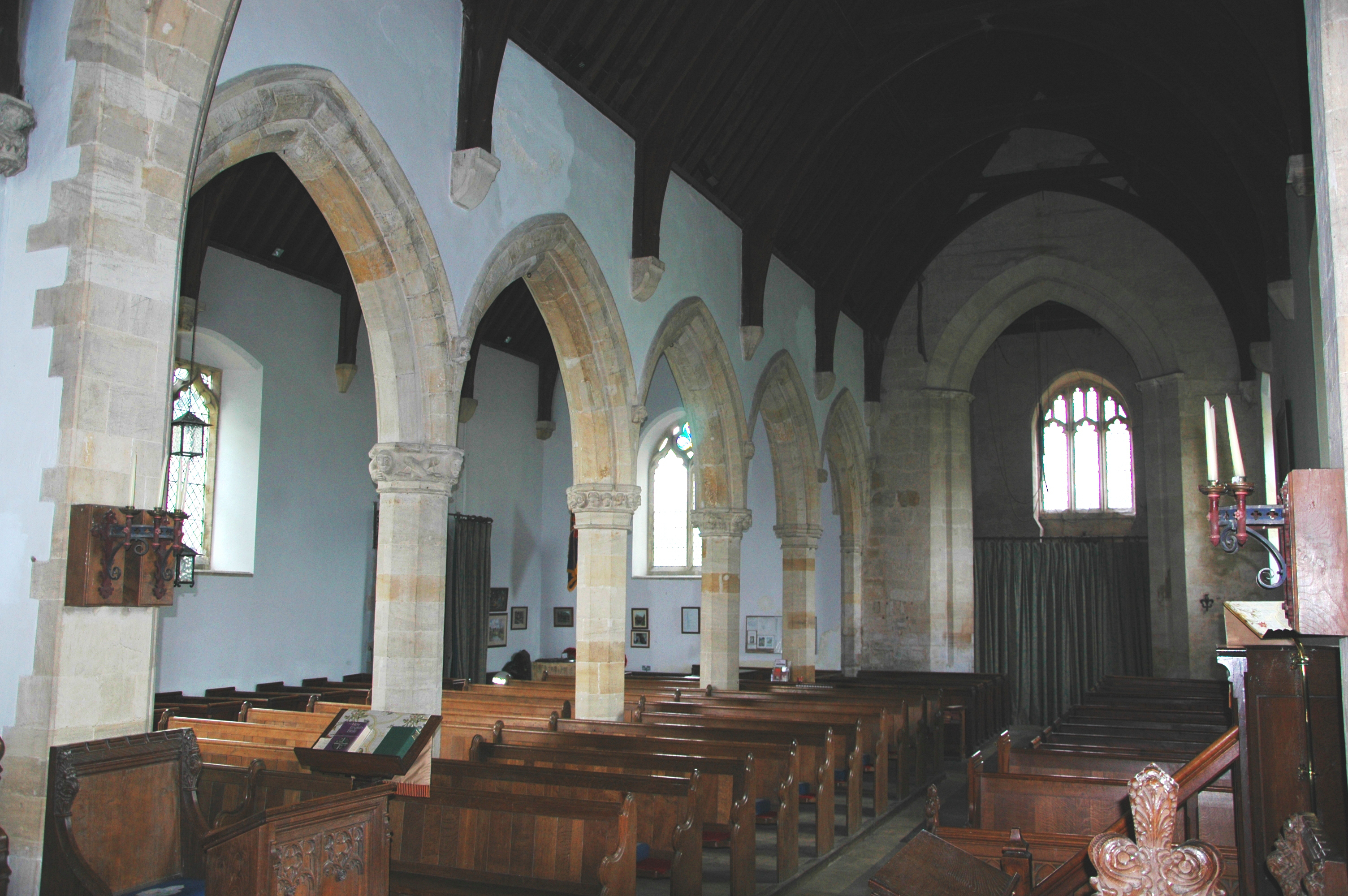 Retouched version of